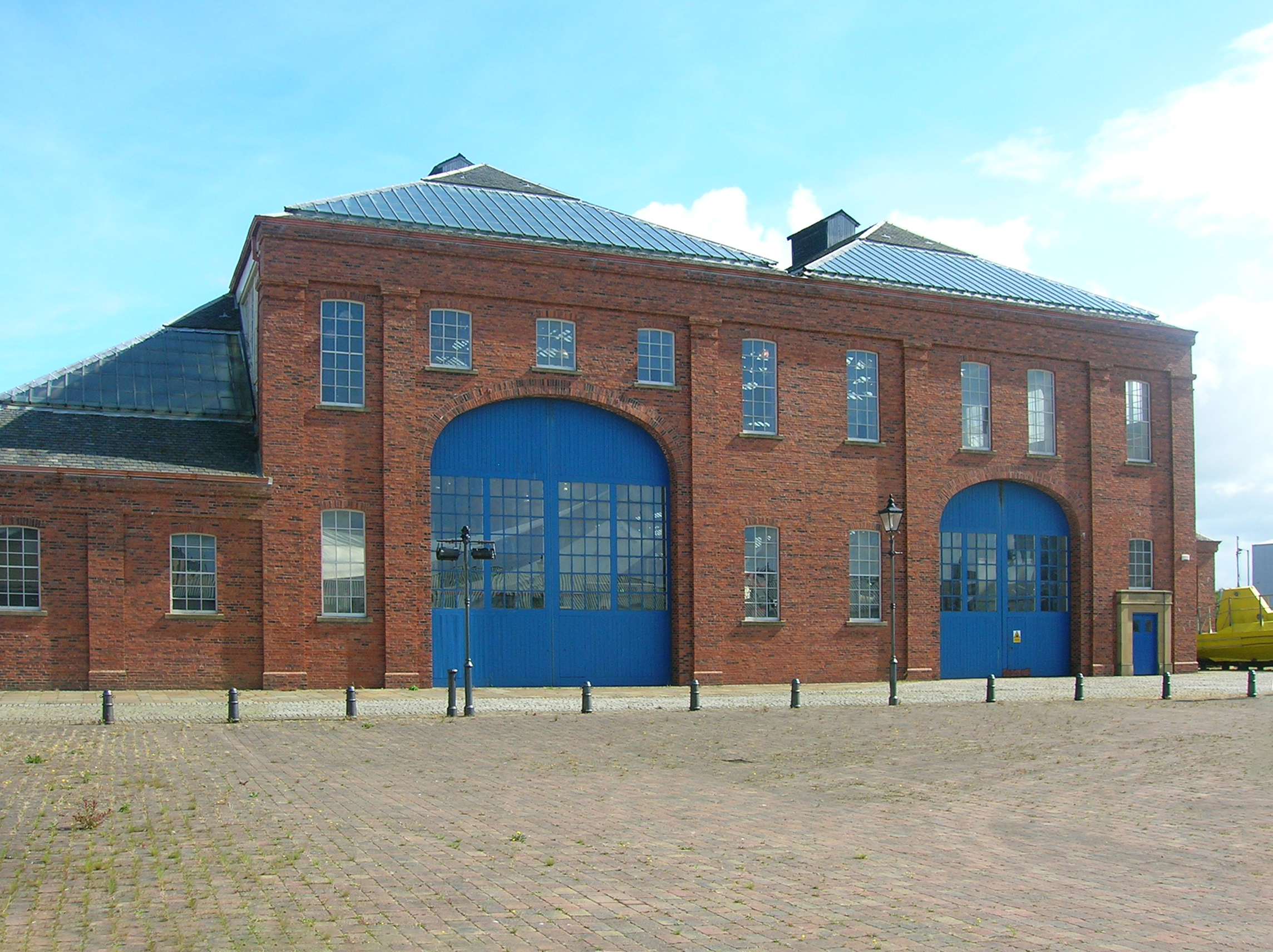 The Linthouse building at the Scottish Maritime Museum, Irvine, North Ayrshire, Scotland.Rosser 21:21, 26 August 2007 (UTC)